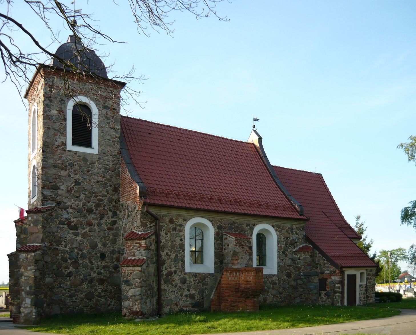 The church in Biskupice, Poland.